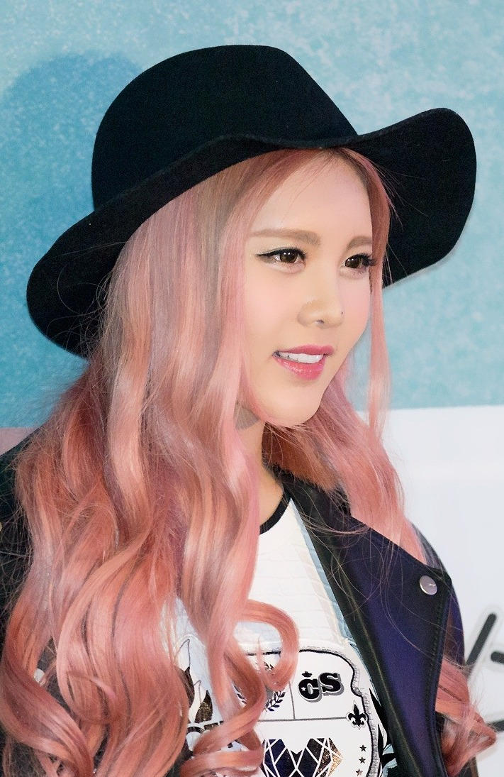 Qri at Love Jinx vip premiere, February 2014